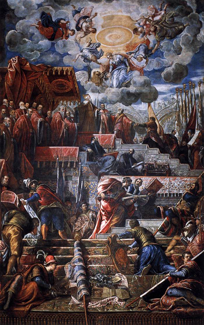 Doge Nicolo da Ponte Receiving the golden crown,Sala del Maggior Consiglio